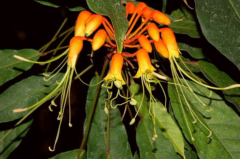 Steriphoma paradoxum, known from South-America, photographed in the Botanical Garden Berlin, Germany